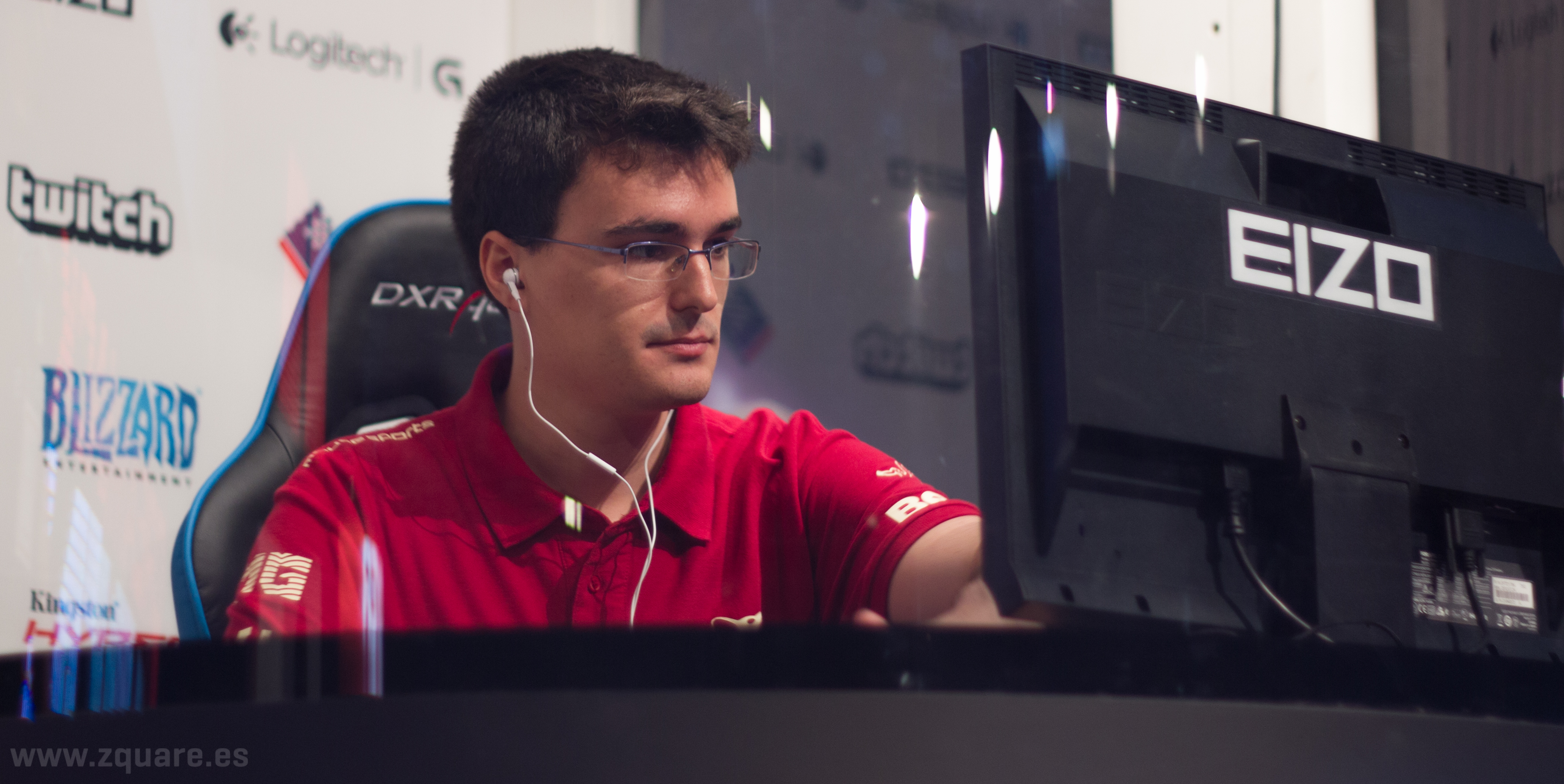 WarCraft 3/StarCraft 2/Heroes of the Storm player LucifroN (Pedro Moreno Durán) at the DreamHack Valencia 2013